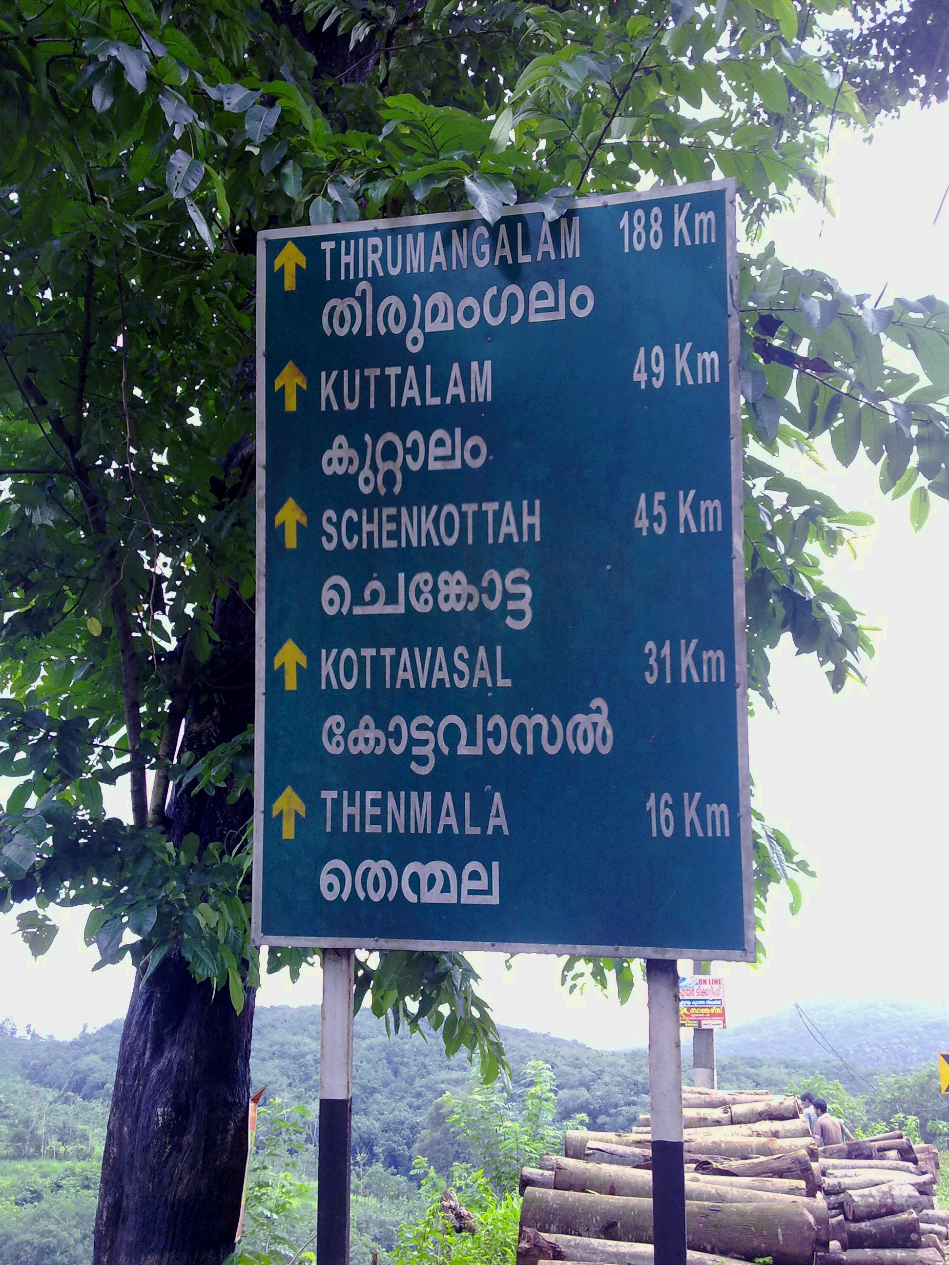 A sign board in NH 208, India